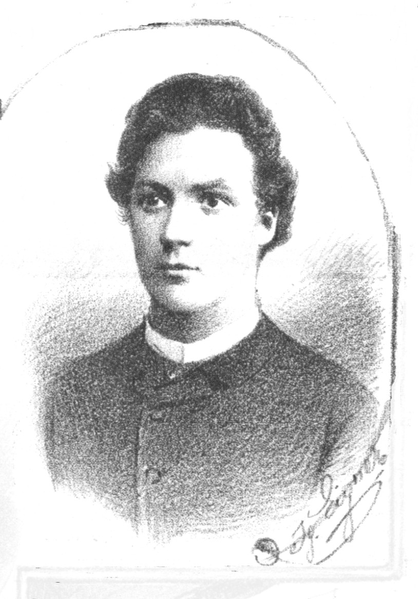 Portrait of Karl Augustin (1852-??), Austrian actor and comedian. Cropped from a gallery of actors of a summer theatre in Bad Ischl.